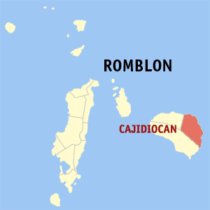 Map of Romblon showing the location of Cajidiocan